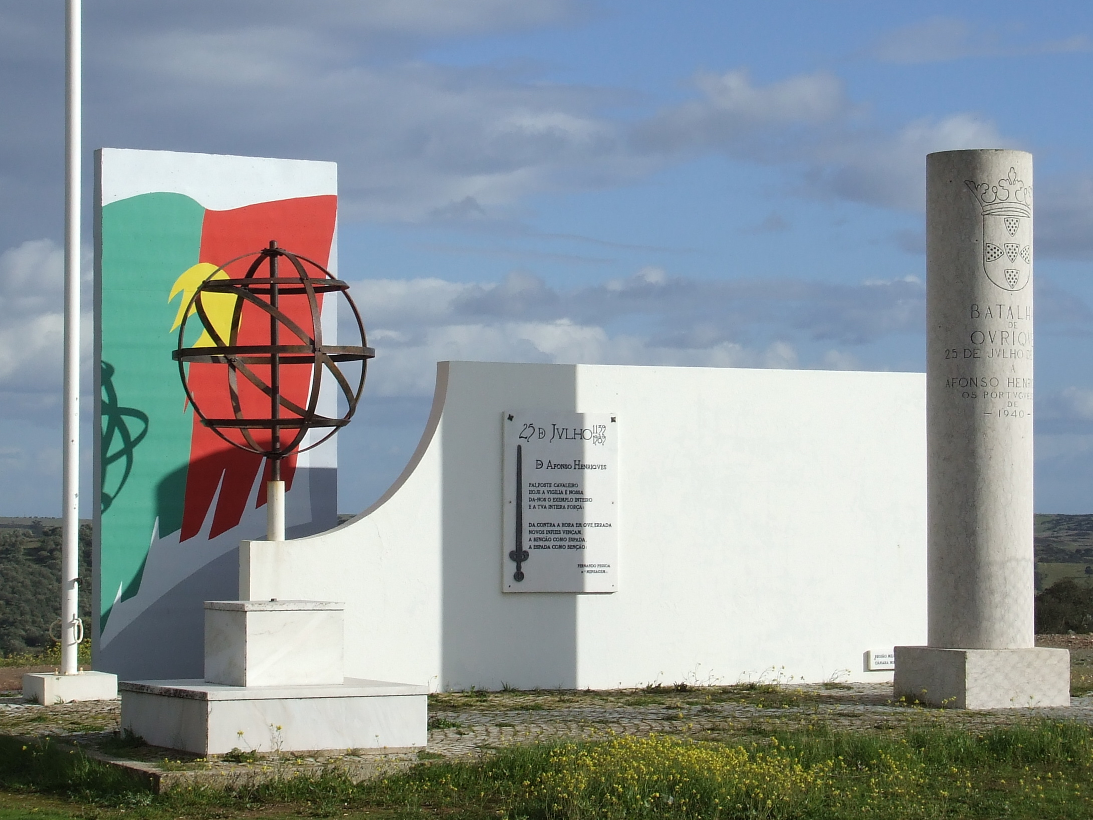 Memorial to the 'Battle of Ourique' (1139) at San Pedro de Cabeças.